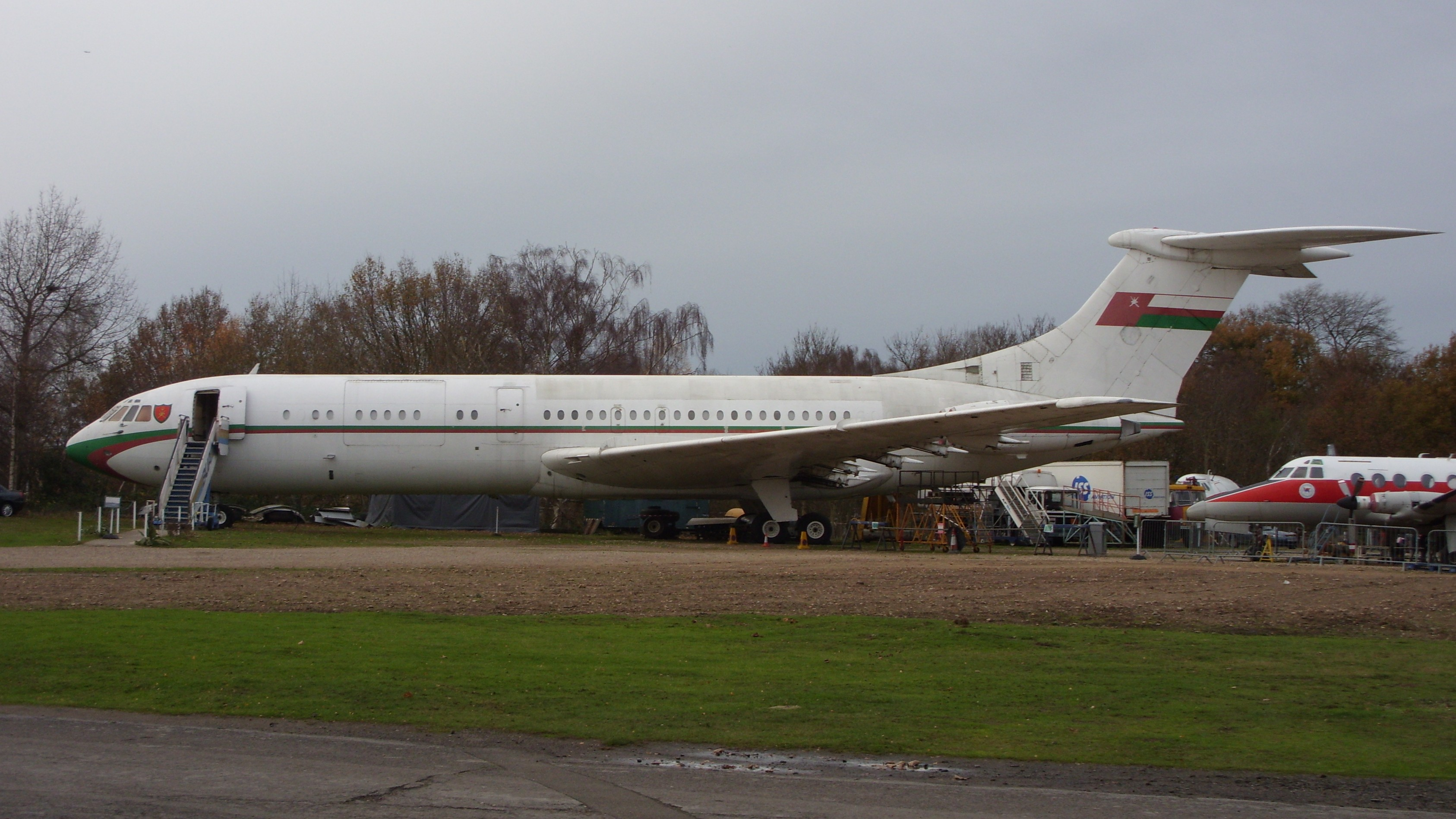 Former Oman Royal Flight Vickers VC10 on display at the Brooklands Museum, Surrey, England